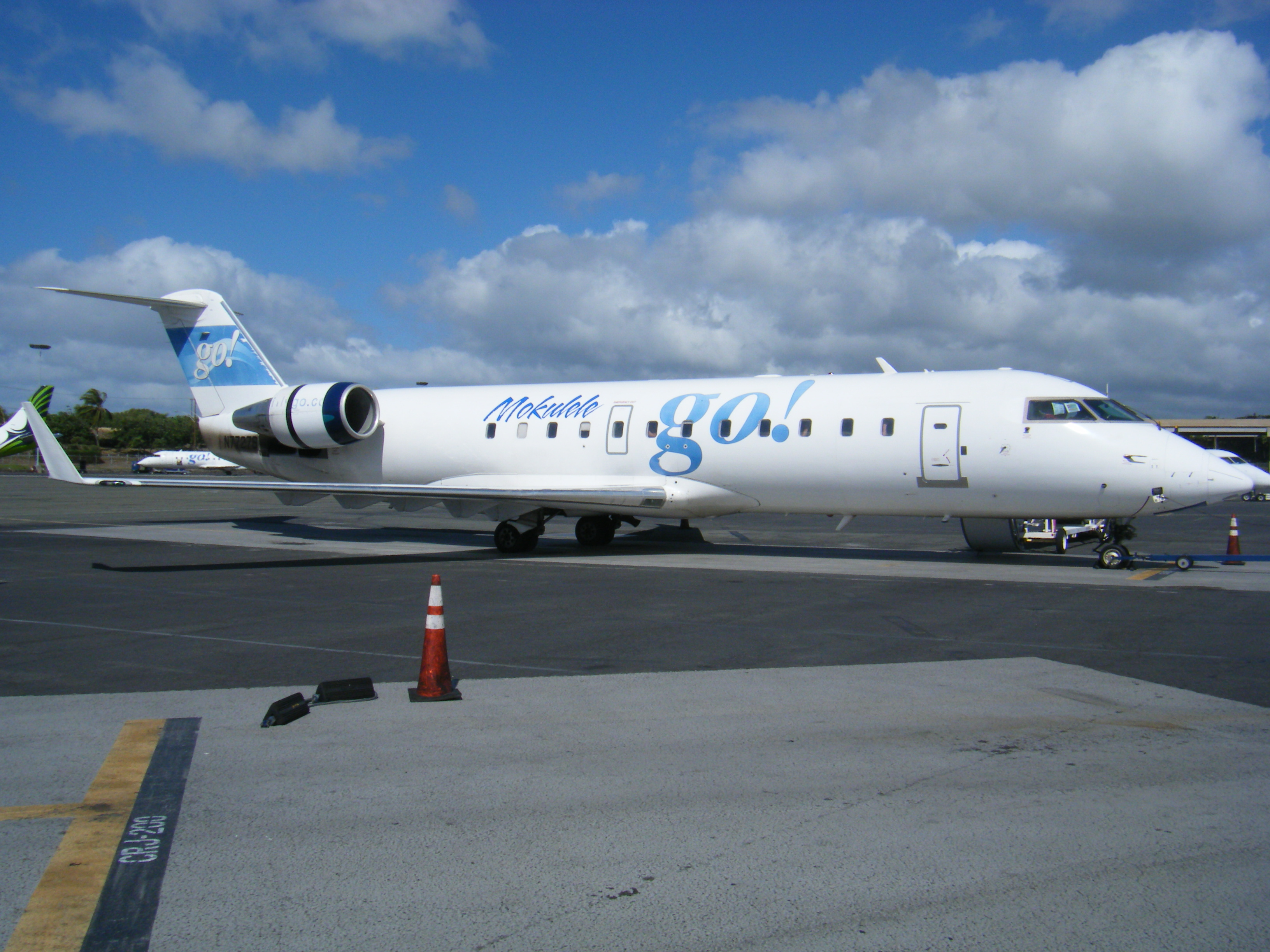 go! Mokulele plane at HNL